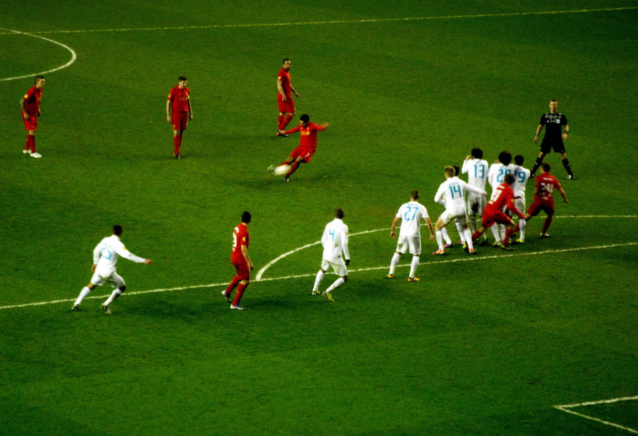 Luis Suarez taking free kick against Zenit St Petersburg in UEFA Europa League